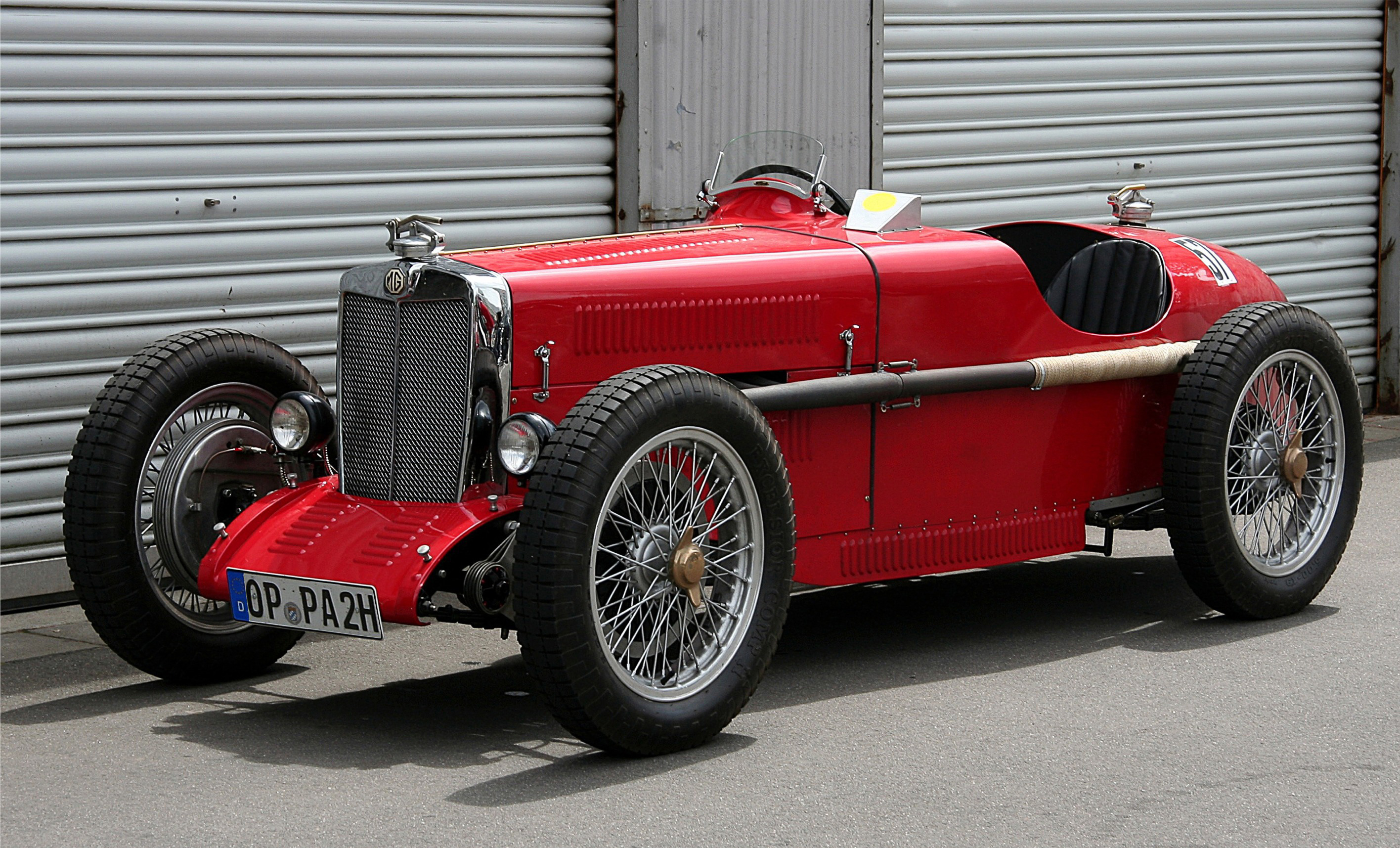 MG PA-based racer with a 1300cc six-cylinder engine, in the historic paddock of the Nürburgring before closed boxes. The license plate is modified. Event: DAMC 05 Oldtimer Festival 2008.